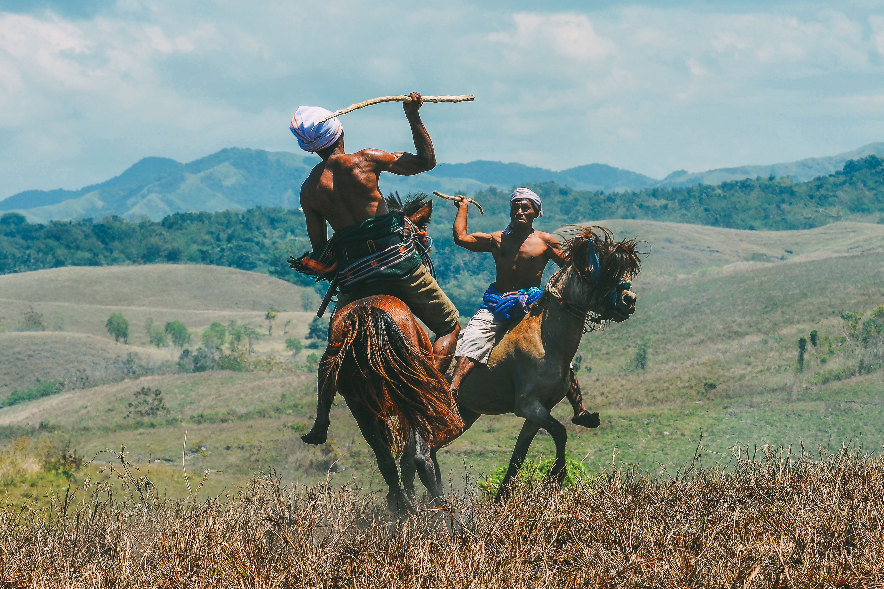 Pasola is derived from the words Sola and Hola which means javelin wood. But in the context of ritual, Pasola is a tradition of war between two opposing camps, chasing after throwing a wooden javelin at an opponent. Participants were not limited, each camp had its own tactics and tried to bring down the opposing party. Bloody wounds, falls, and even those who die are common in this ritual.